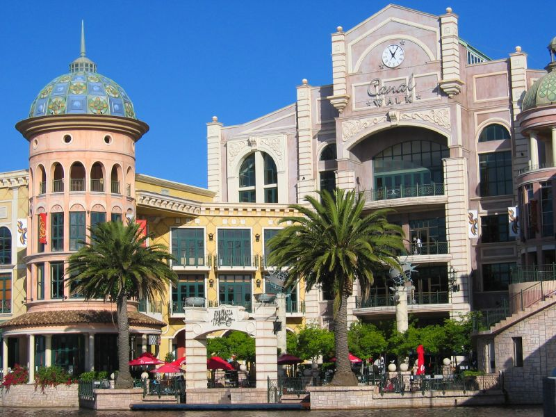 Canal Wall Mall in Cape Town, South Africa